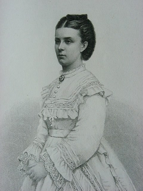 Princess Marie of Saxe-Altenburg (1854–1898)